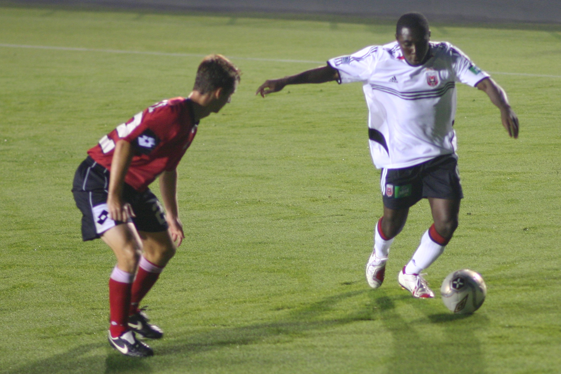 Troy Lessane of thE Charleston Battery and Freddy Adu of D.C United